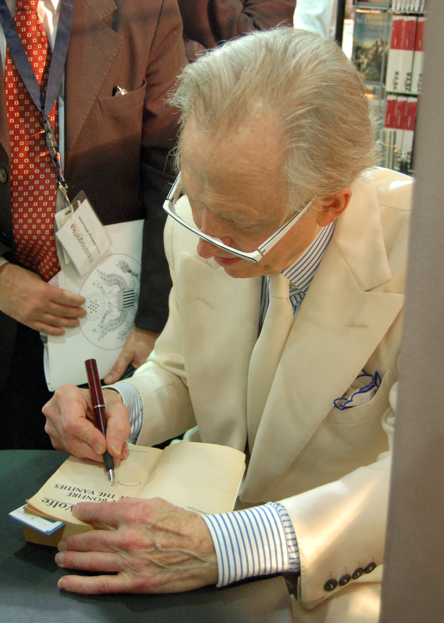 Best-selling author and journalist Tom Wolfe spoke at the 34th Annual International Book Fair in Buenos Aires on May 3, 2008. Afterwards, people lined up at one of the pavilions to have their books signed. Here, Mr. Wolfe is signing an edition of his "Bonfire of the Vanities."